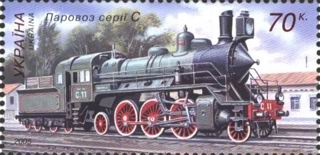 Stamp of Ukraine